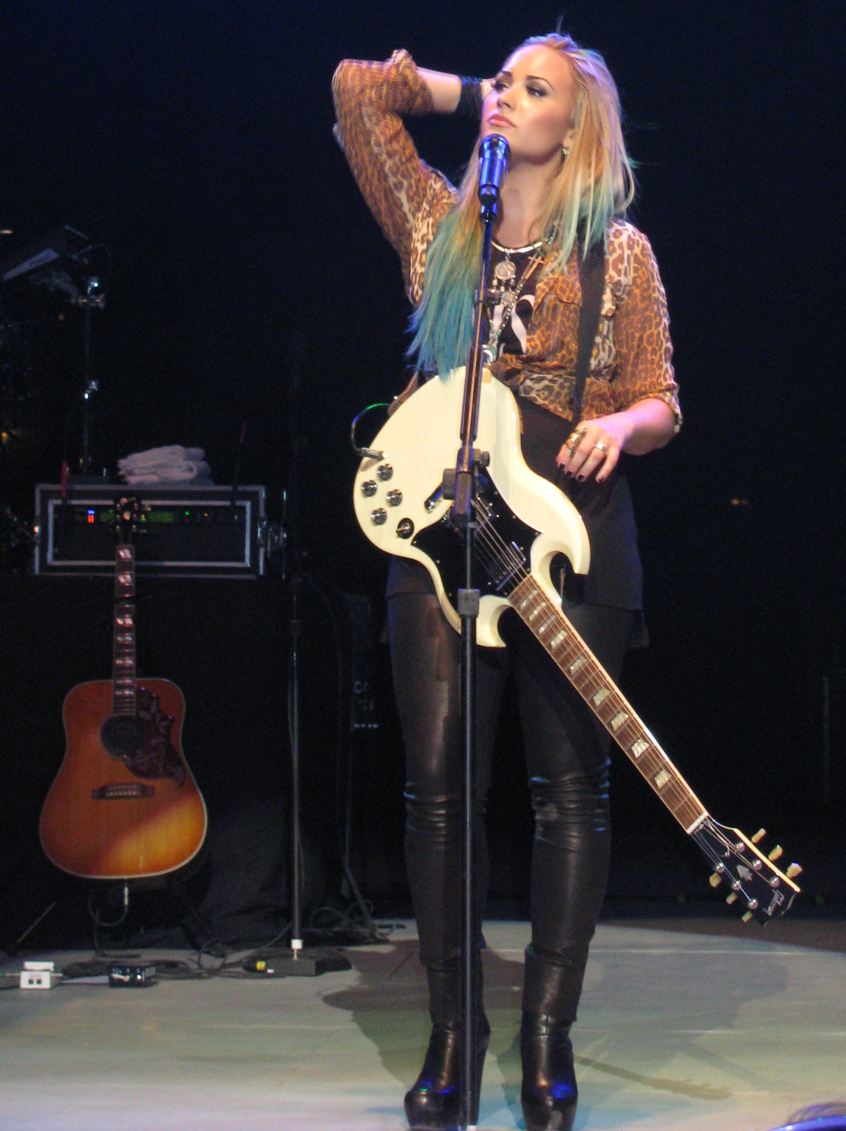 Demi Lovato playing a white guitar on her Summer Tour 2012 in Springfield, IL